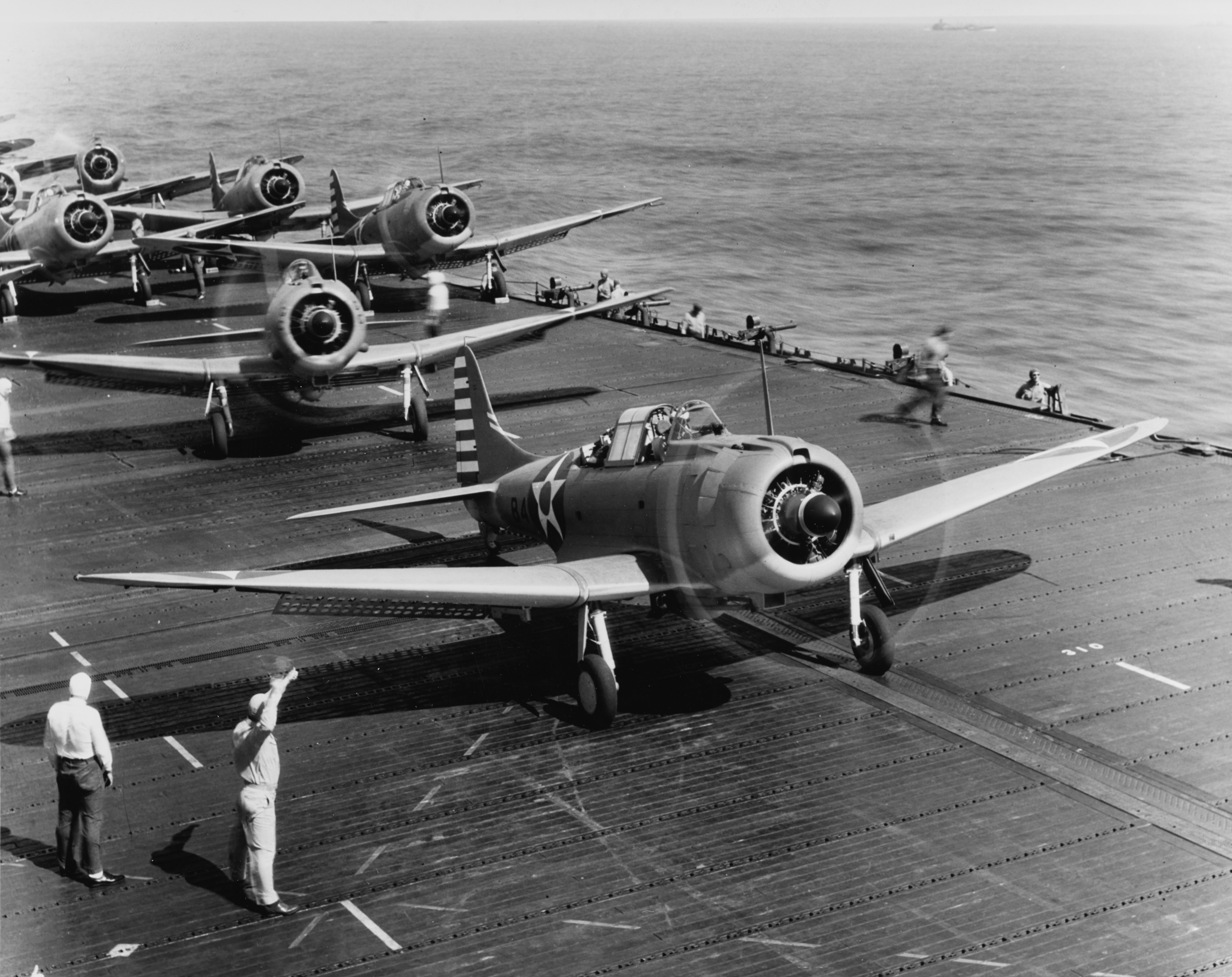 Douglas SBD-3 Dauntless of Bombing Squadron 6 (VB-6) preparing for take off on the U.S. Navy aircraft carrier USS Enterprise (CV-6) for the Wake Island Raid, 24 February 1942. Air group commander Lieutenant Commander Howard Young, USN, is in the following plane, as denoted by letters "GC" (Group Commander) on cowl front. Note the gun gallery of 12.7 mm cal. water-cooled Browning machine guns and the fleet oiler in the background.